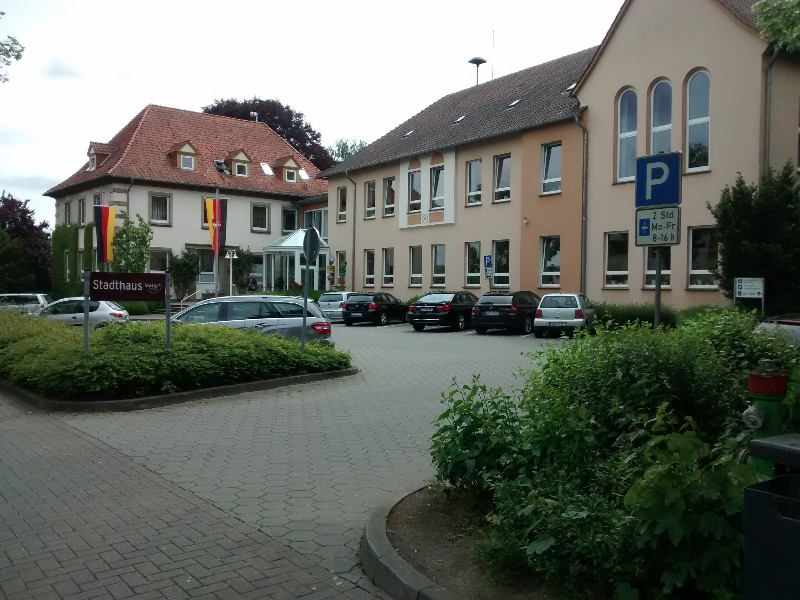 Stadthaus Melle on a Mondays noon.